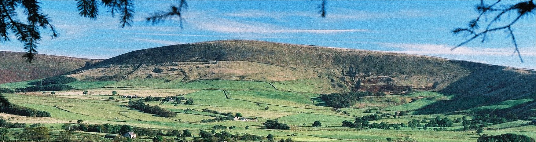 Fair Snape Fell, in Lancashire, England. Photographed from Beacon Fell.